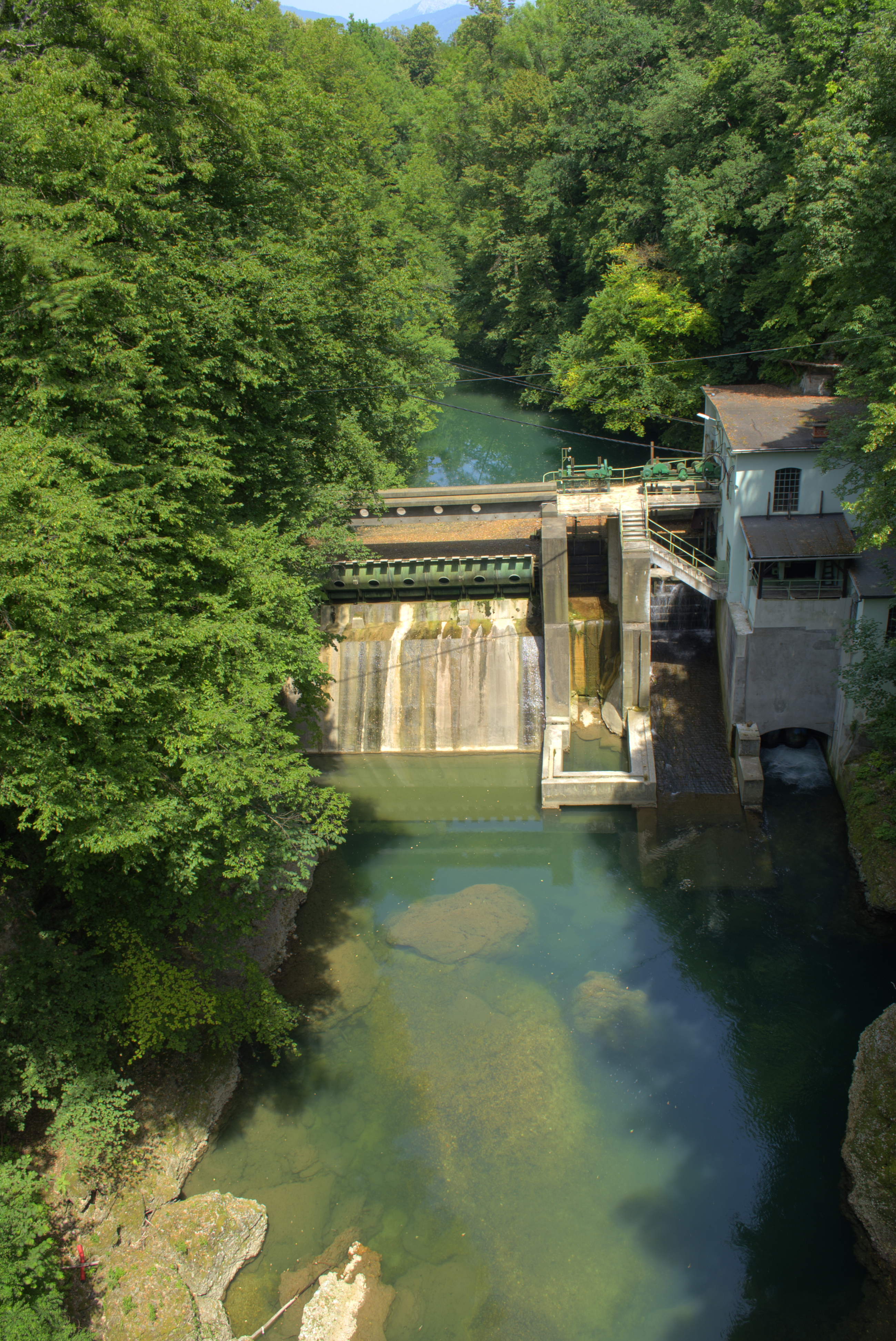 Small Hydropower plant on river Kokra in Kranj